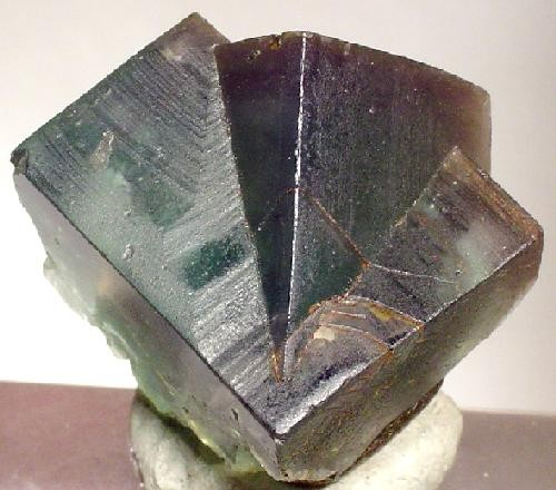 Fluorite Locality: Heights Mine, Westgate, Weardale, North Pennines, County Durham, England, UK (Locality at ) Very gemmy and gorgeous, penetration-twin green fluorite crystals from the famous Heights Mine of England. This beauty has paper-thin, purple phantoms and very lightly frosted and striated crystal faces. One trivial edge bruise is certainly not detracting from this classic, old-timer. Super fluorescence. The backlit photo highlights the gemmyness and purple phantoms. 2.7 x 2.5 x 2.5 cm